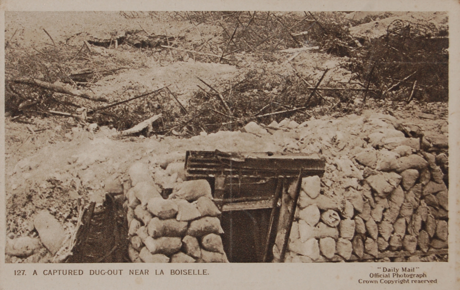 World War I Daily Mail Official War Photograph, Series 16, No. 127, titled " A captured dug-out near La Boiselle". The obverse carries the following information: "Passed by Censor" and "A view of a captured German dug-out near the village of La Boiselle. The wreckage of our bombardment is seen beyond the trench."